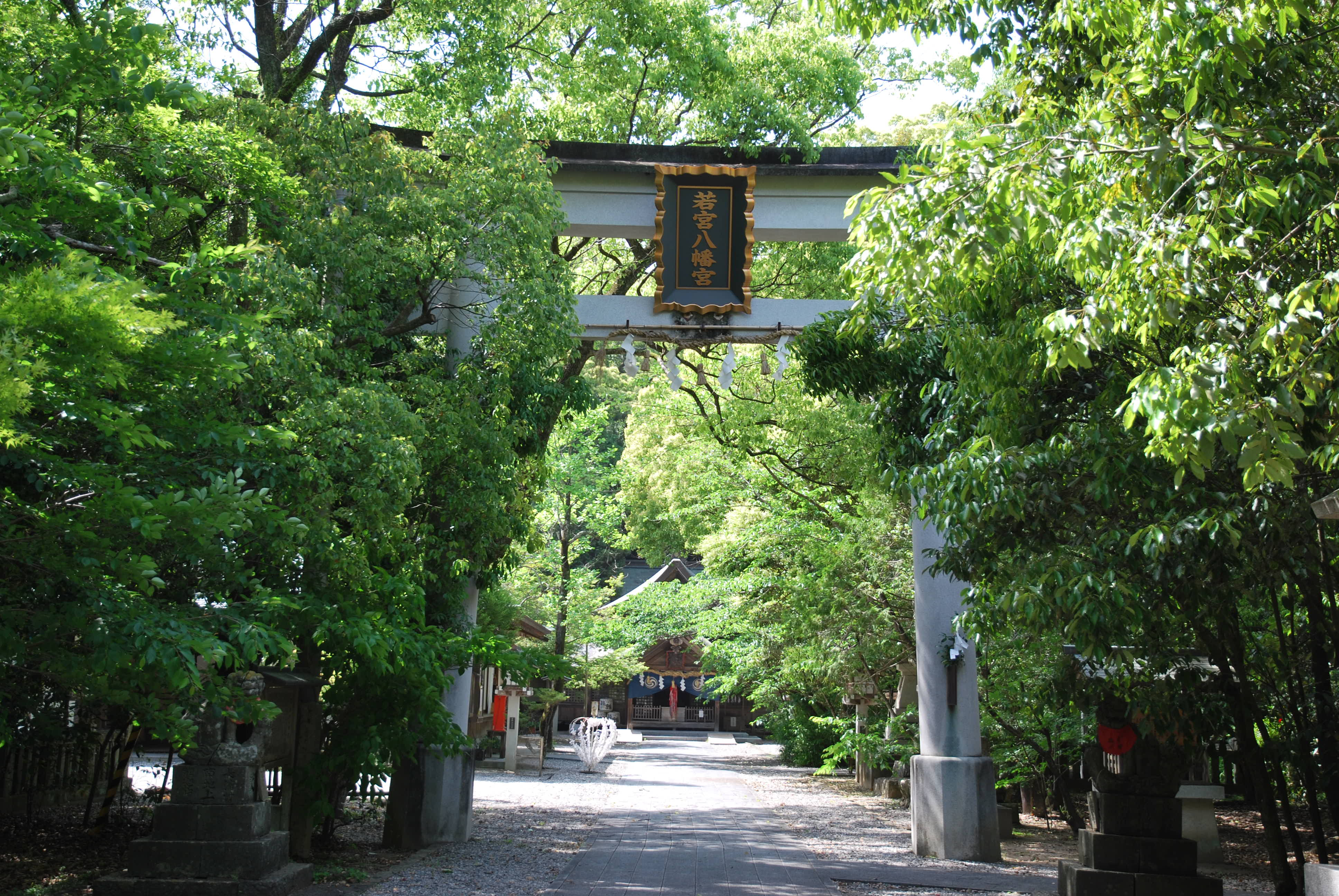 Second torii, Wakamiya Hachiman-gū